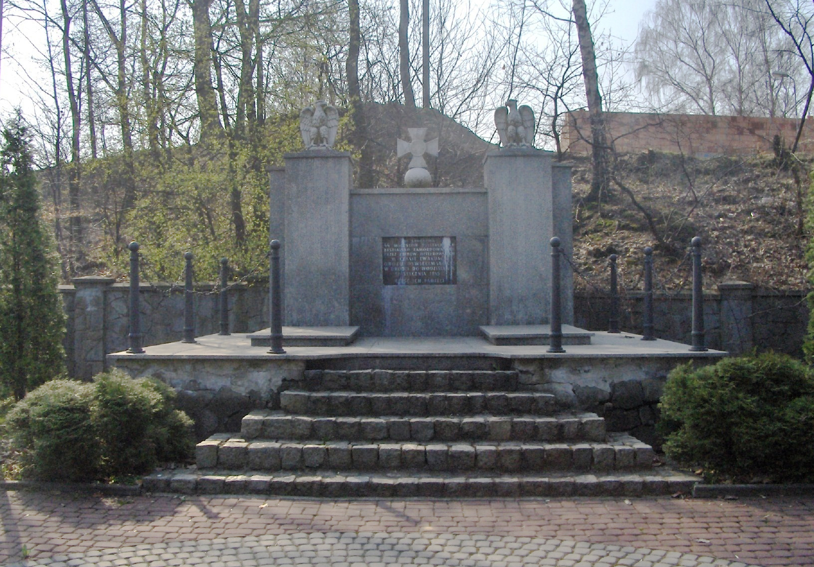 Grave and Monument 44 Casualties of the Auschwitz-Loslau Death March in january 1945. Sand Mountain in Wodzislaw Slaski.